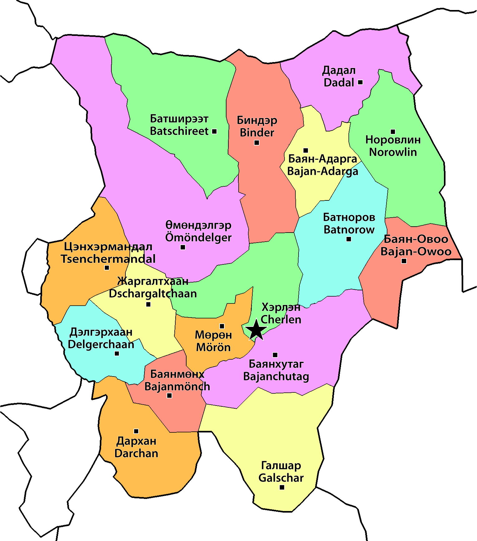 Map of the Khentii aimag with the sums